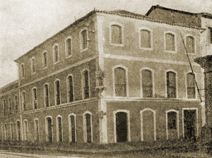 Casa Grande